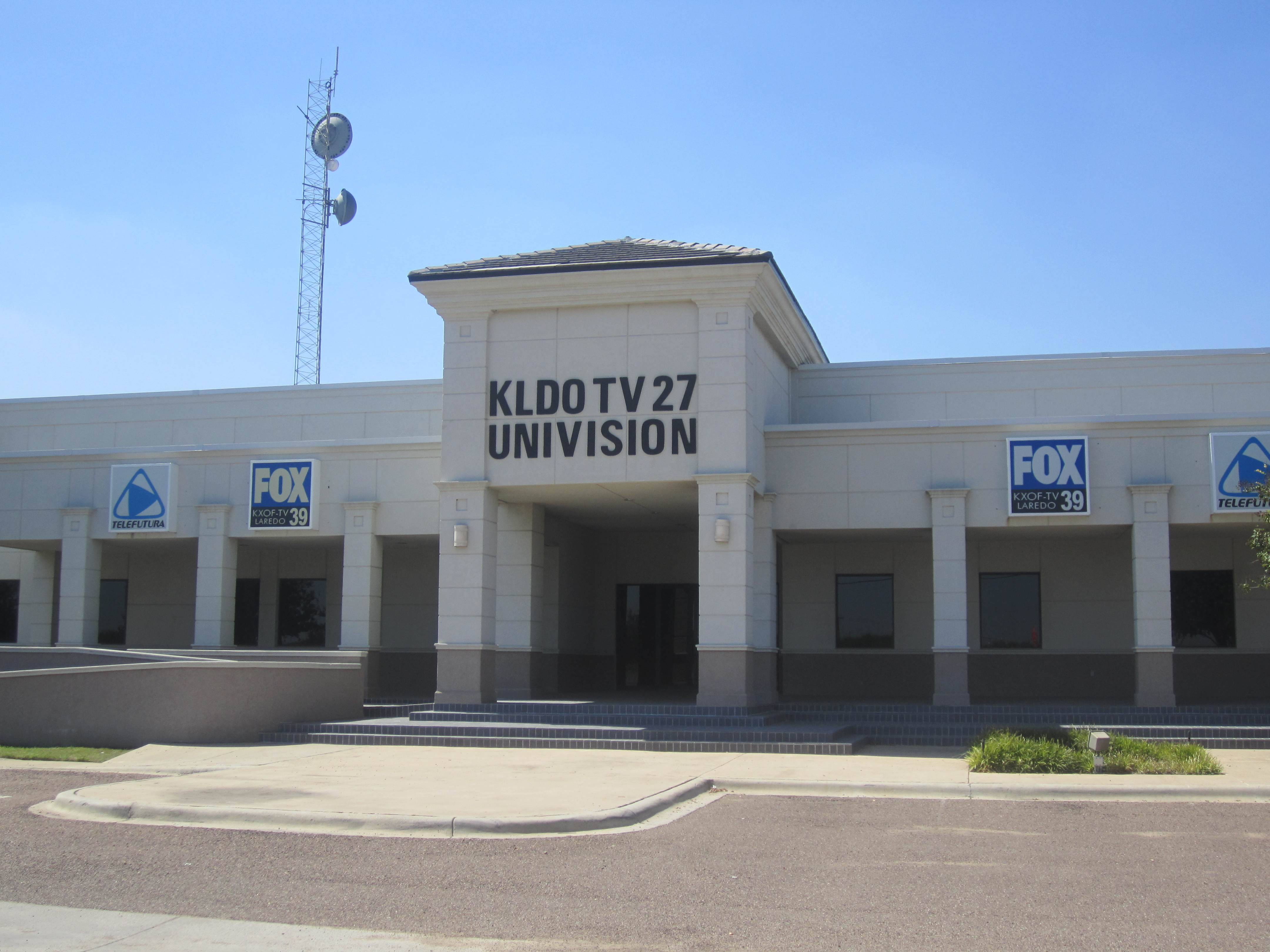 I took photo with Canon camera in Laredo, TX.